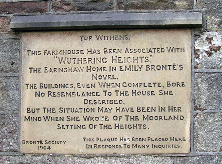 Brontë Society plaque at Top Withens